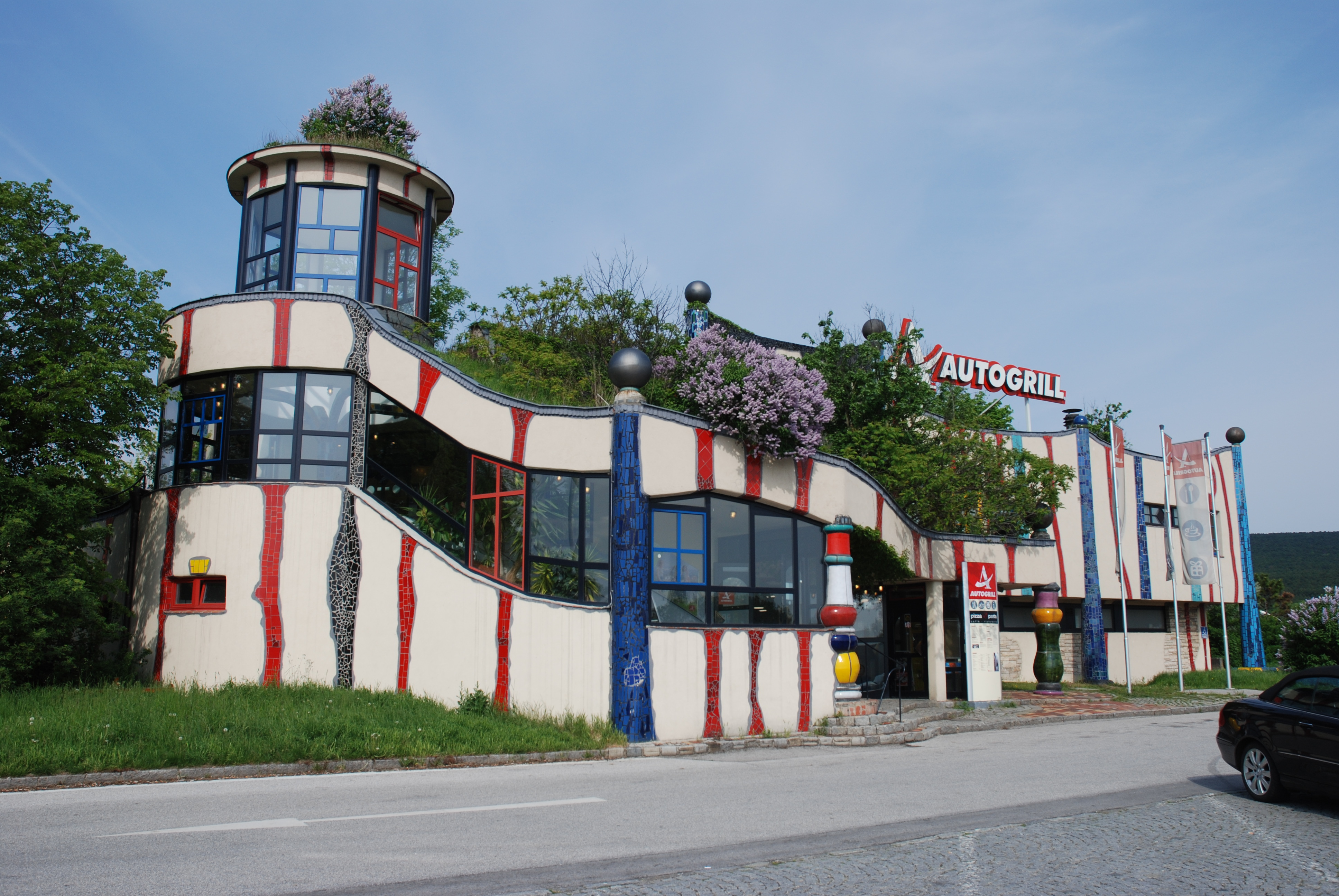 Autogrill restaurant Bad Fishau-Brunn, Austria, designed by Friedrich Hundertwasse